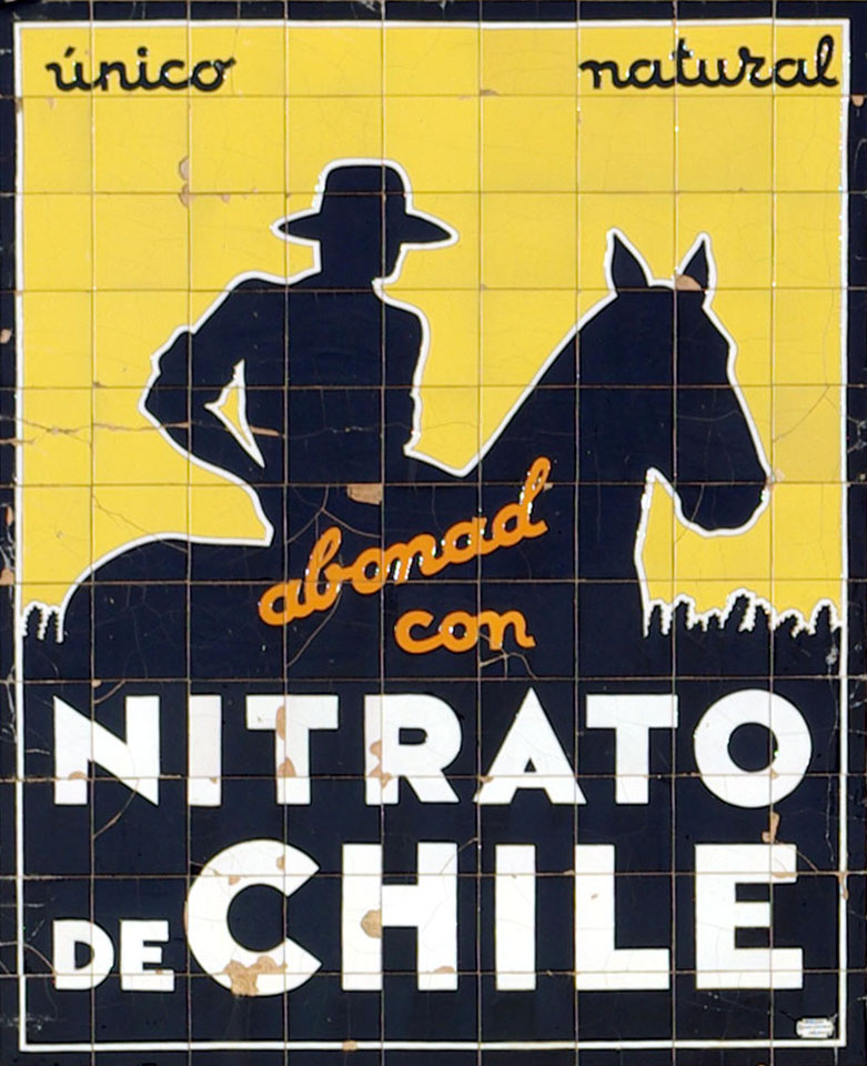 Nitrato de Chile advertisement made of tiles in Burgos (Spain)